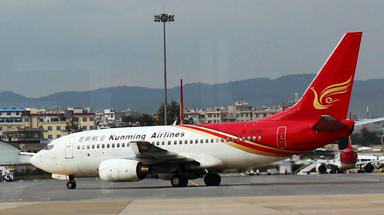 Kunming Airliness Boeing 737-700 at Kunming Wujiaba international airport